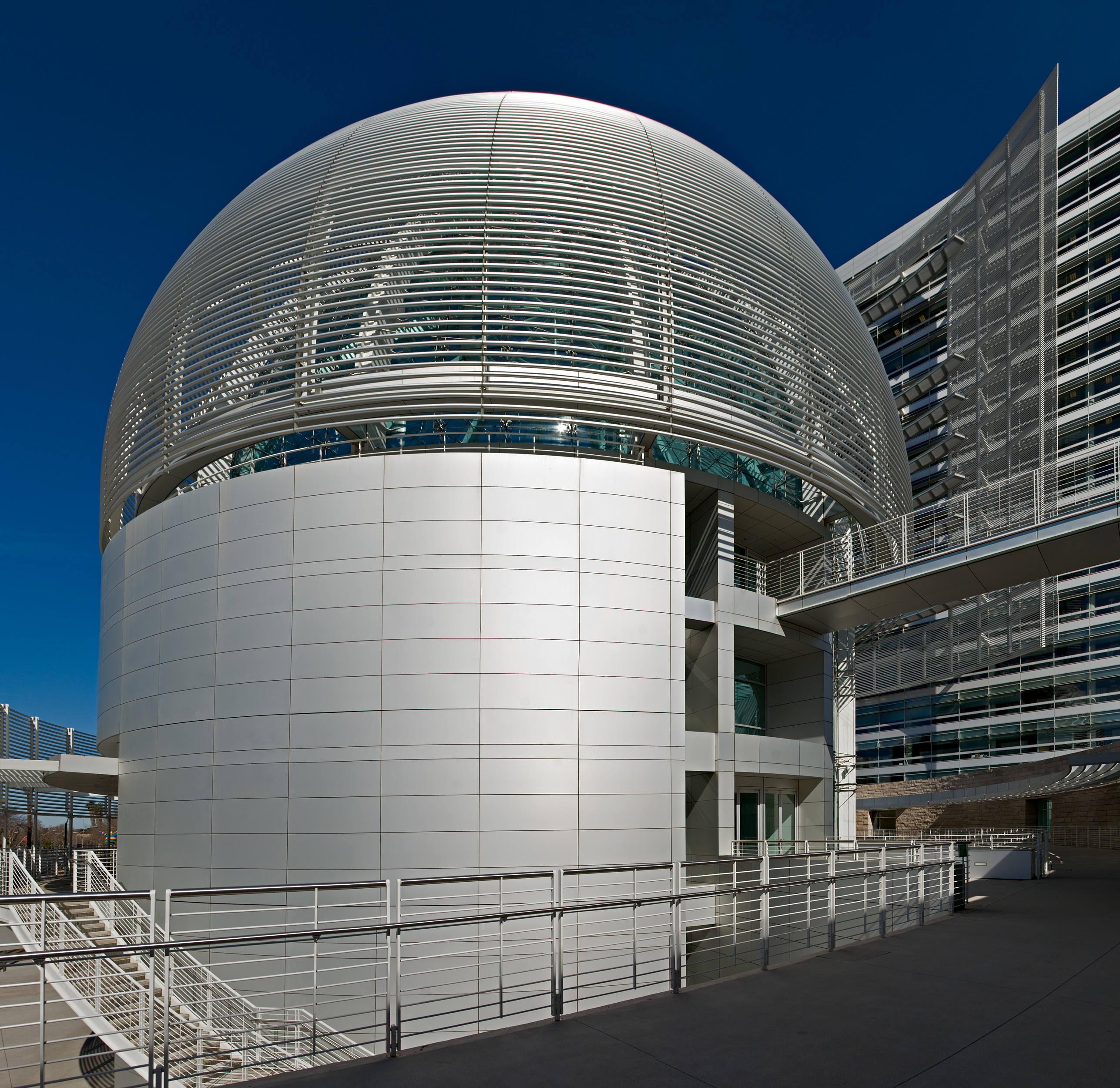 View of the San Jose City Hall Rotunda.